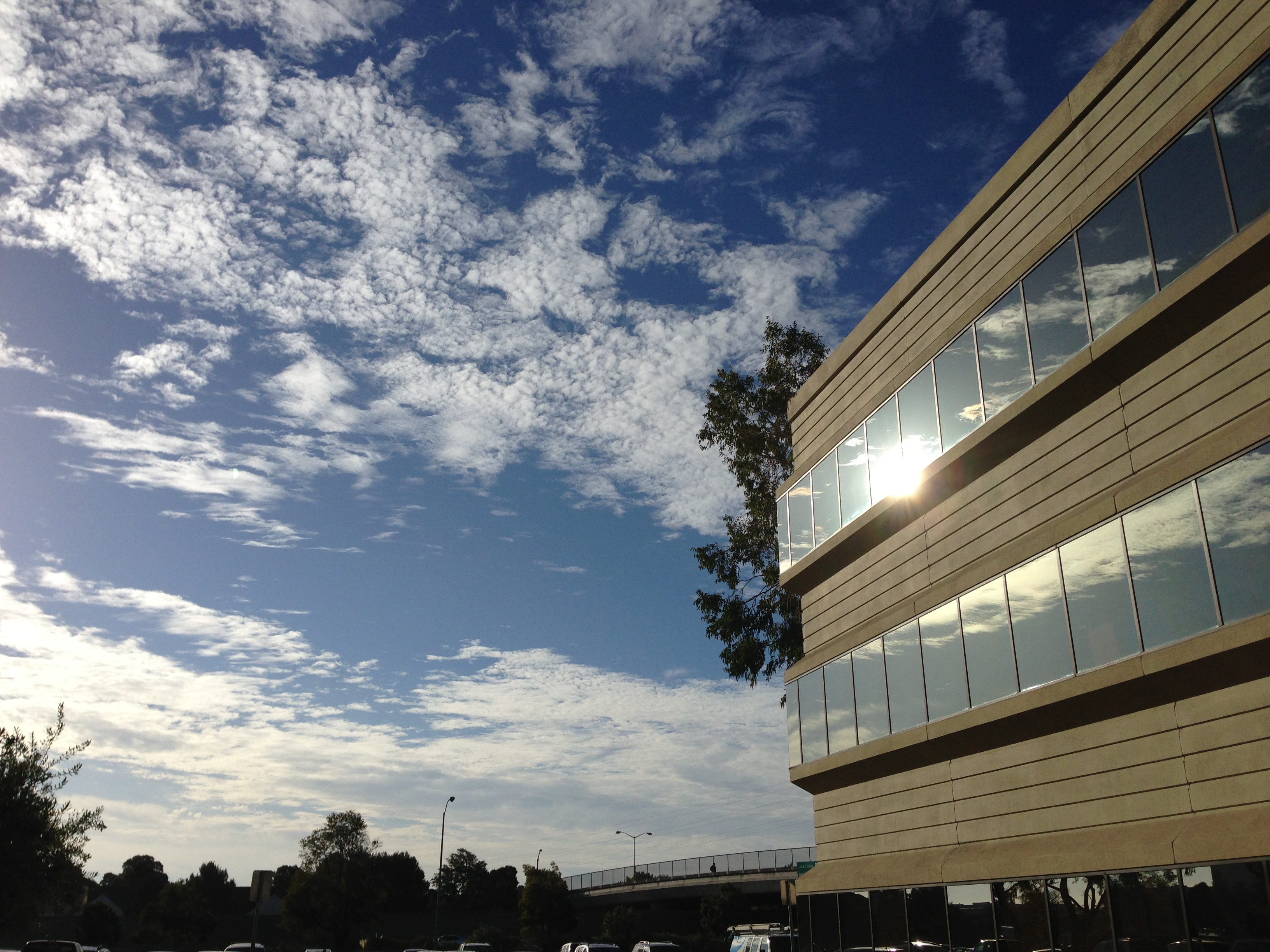 GetJar office in San Mateo, CA